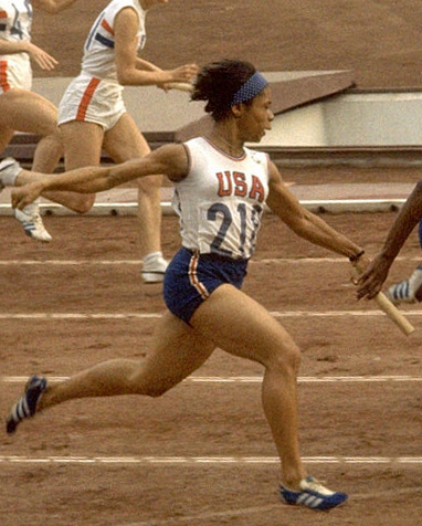 Willie White of USA passes the baton to Edith McGuire in the Women's 4x100m Relay Final during Tokyo Olympic at the National Stadium on October 21, 1964 in Tokyo, Japan.